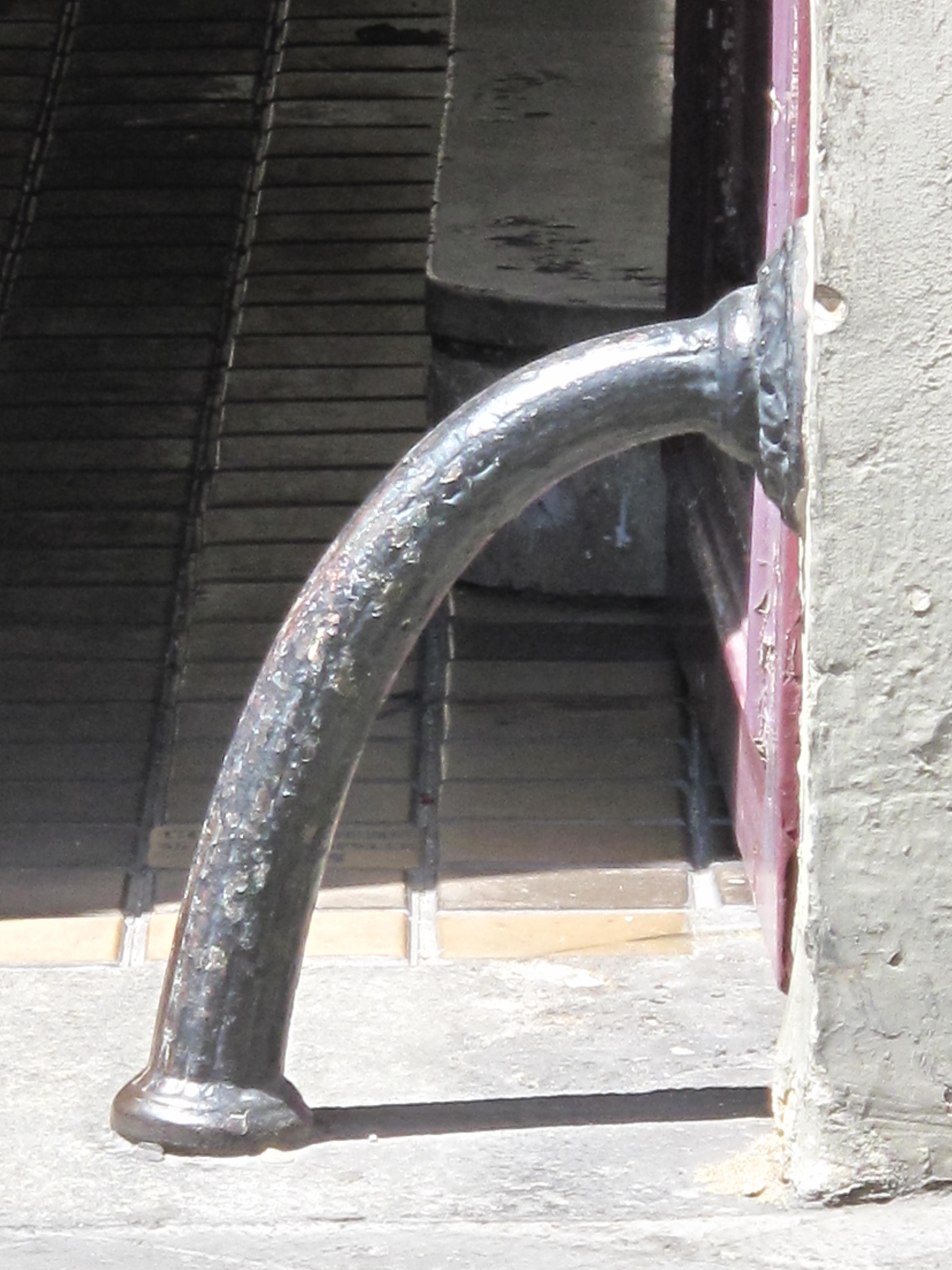 Guard stone à the 43, rue Saint-Georges, Paris